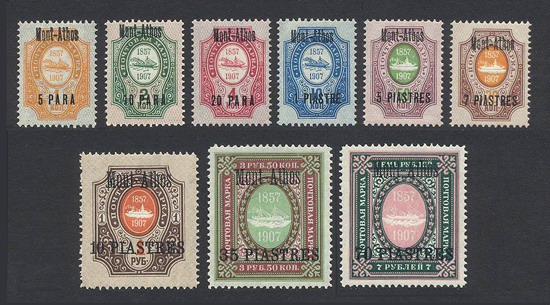 Stamp of Russia